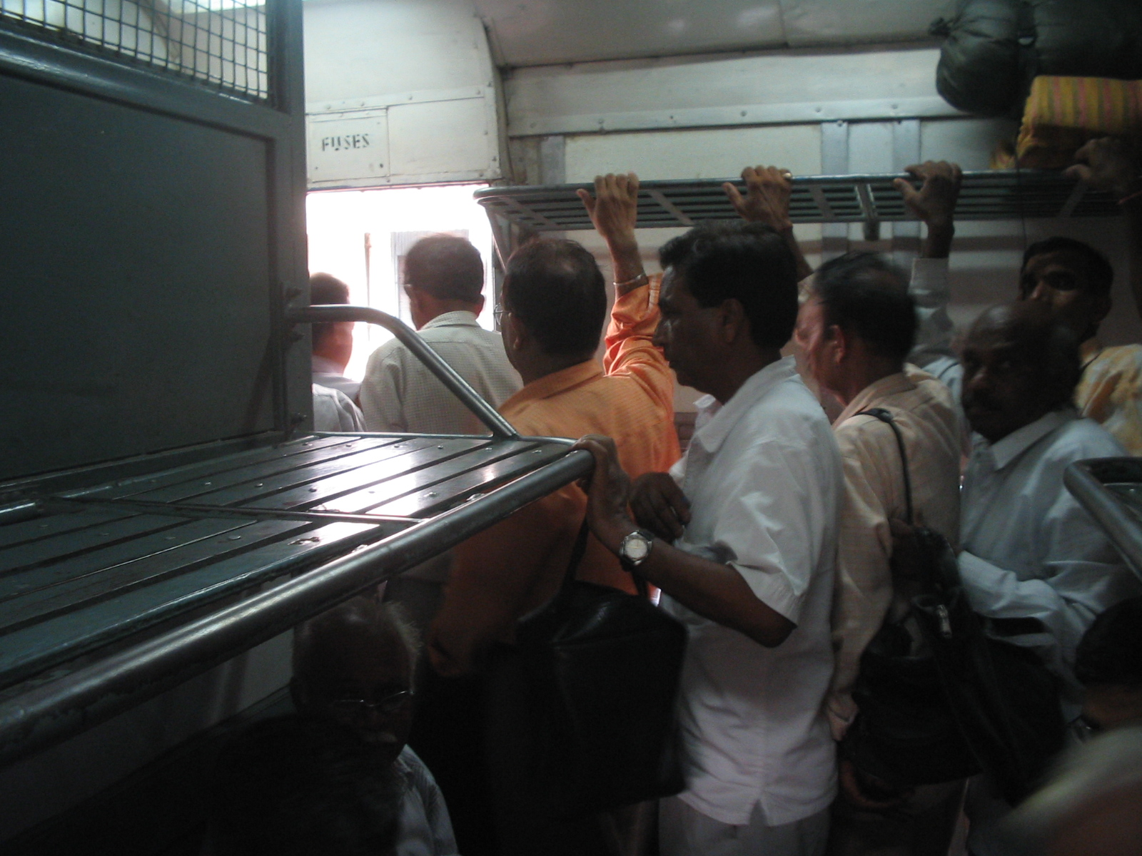 Indian Railways typical activity while getting off esp in General compartments -- Shot during returning from Shimla Trip of 2007. This particular shot when we had to get off at the Ambala railway station to change trains for Jalandhar city. The last two people caught me taking a shot stealthily...you know, I had switched off the flash too :)